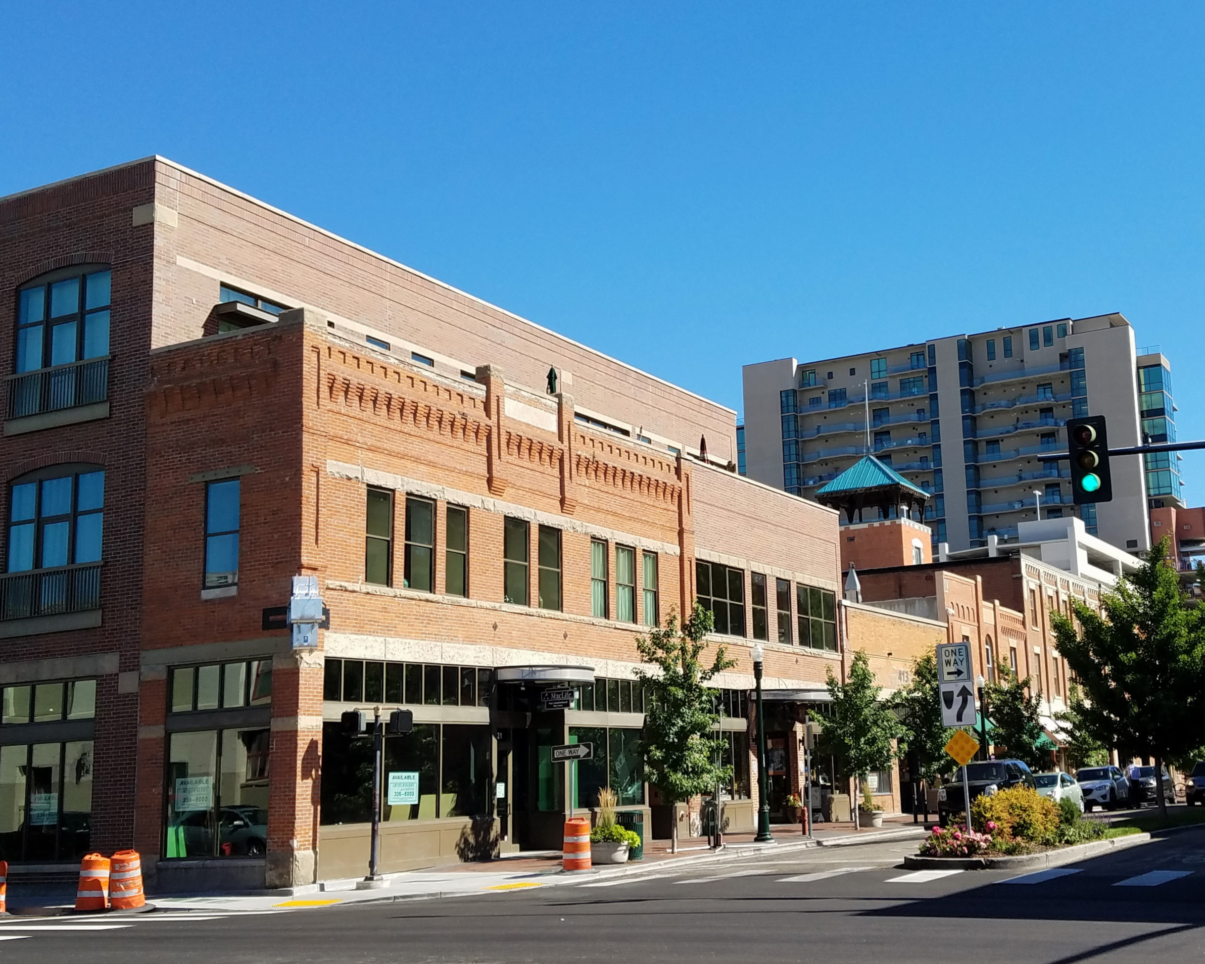 The O. W. Smith building (1902), also known as the Boise Fruit and Produce Building, Boise, Idaho, is part of the South 8th Street Historic District.